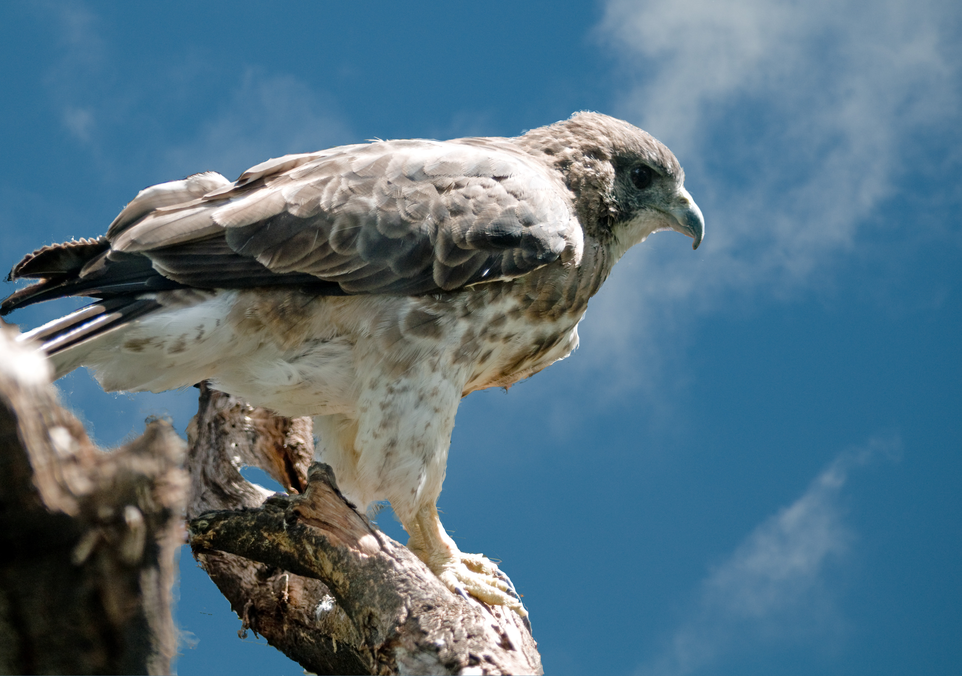 'io, the Endemic Hawaiian Hawk is only found on the Big Island of Hawai'i.